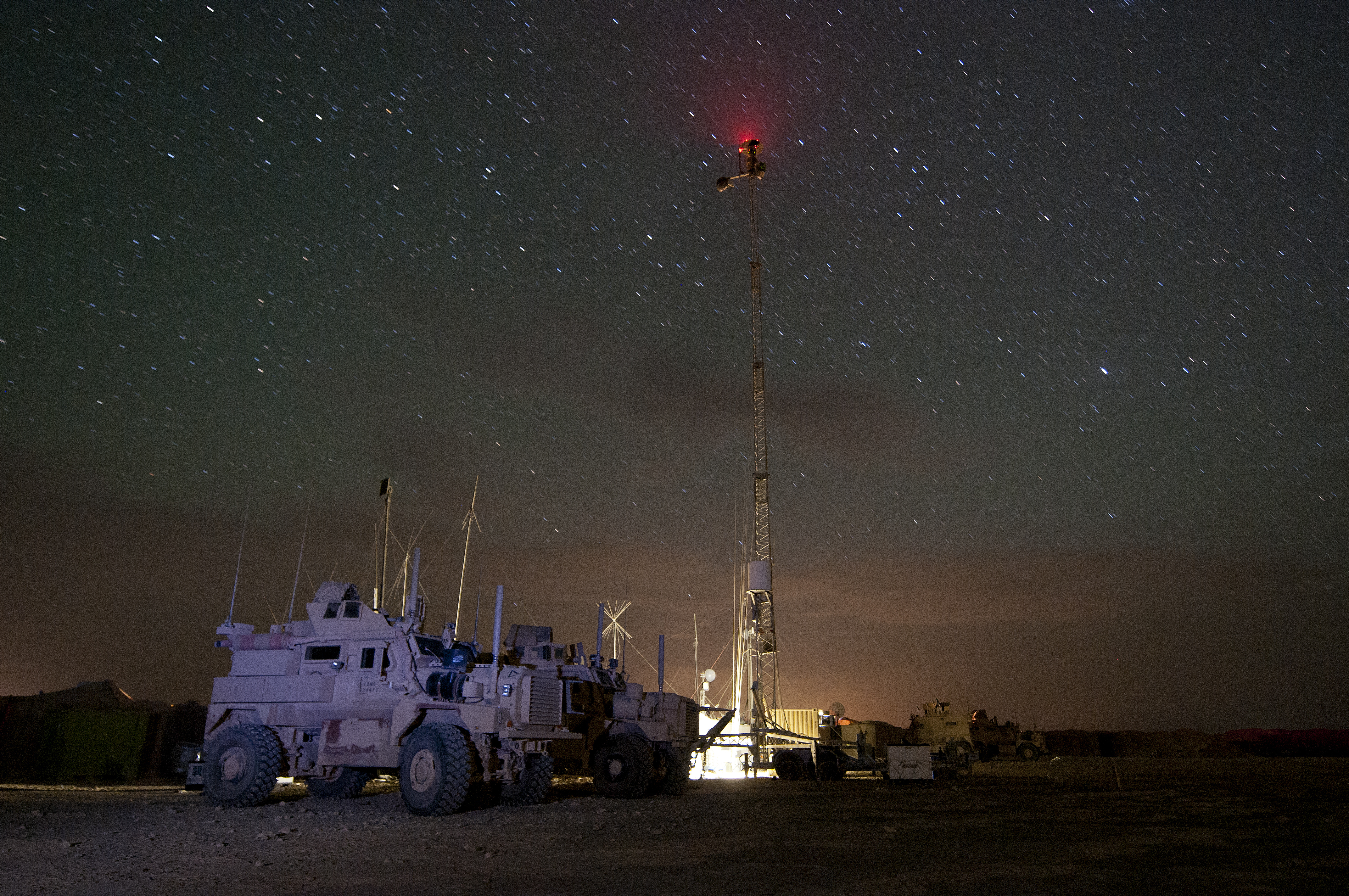 A Marine MRAP sits on a patrol base in Helmand province, Afghanistan run by 5th ANGLICO and Company A, 31st Georgian Light Infantry Battalion. The Georgians' mission is to provide security for the local area and a main supply route. The soldiers have completed more than 100 patrols and ensure freedom of movement for both ISAF forces and the local population. Read more